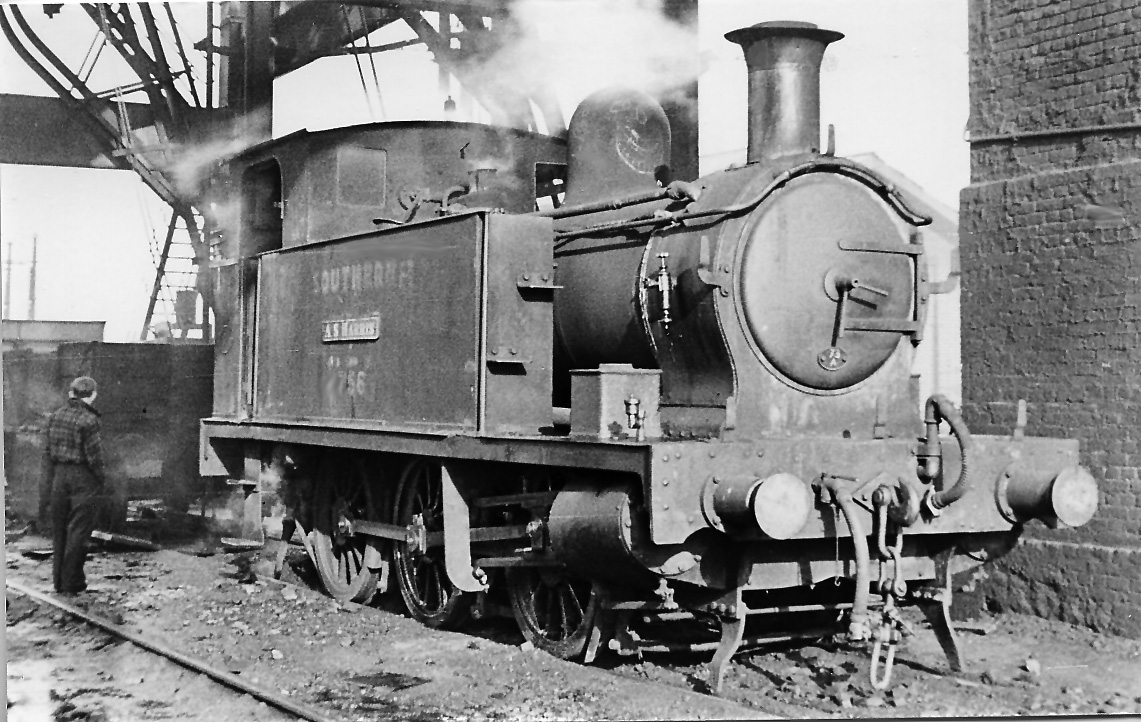 Unique 0-6-0T Shed pilot at Stewarts Lane Locomotive Depot. Ex-Plymouth, Devonport & SW Junction 0-6-0T No. 756 'A.S.Harris' was built by Hawthorn, Leslie in 12/1907: after its home line was absorbed into the LSWR in 1922 it spent most of its life as a shed-pilot all over the SR system until withdrawn in 10/51. After Battersea Park ex-LB&SC Depot was closed in 1934, the major ex-LC&D Depot at Stewarts Lane served main-line passenger services from both Eastern and Central sections at Victoria, as well as freight trafic on lines radiating from London to Kent and Sussex. In 1951 (BR code 73A) its allocation was still large (99 locomotives) and varied, comprising:- 22 4-6-2, 12 4-6-0, 5 4-4-0, 21 2-6-0, 13 0-6-0, 5 2-6-4T (2 SR, 3 LMS-type), 10 0-6-0T and 11 0-4-4T.